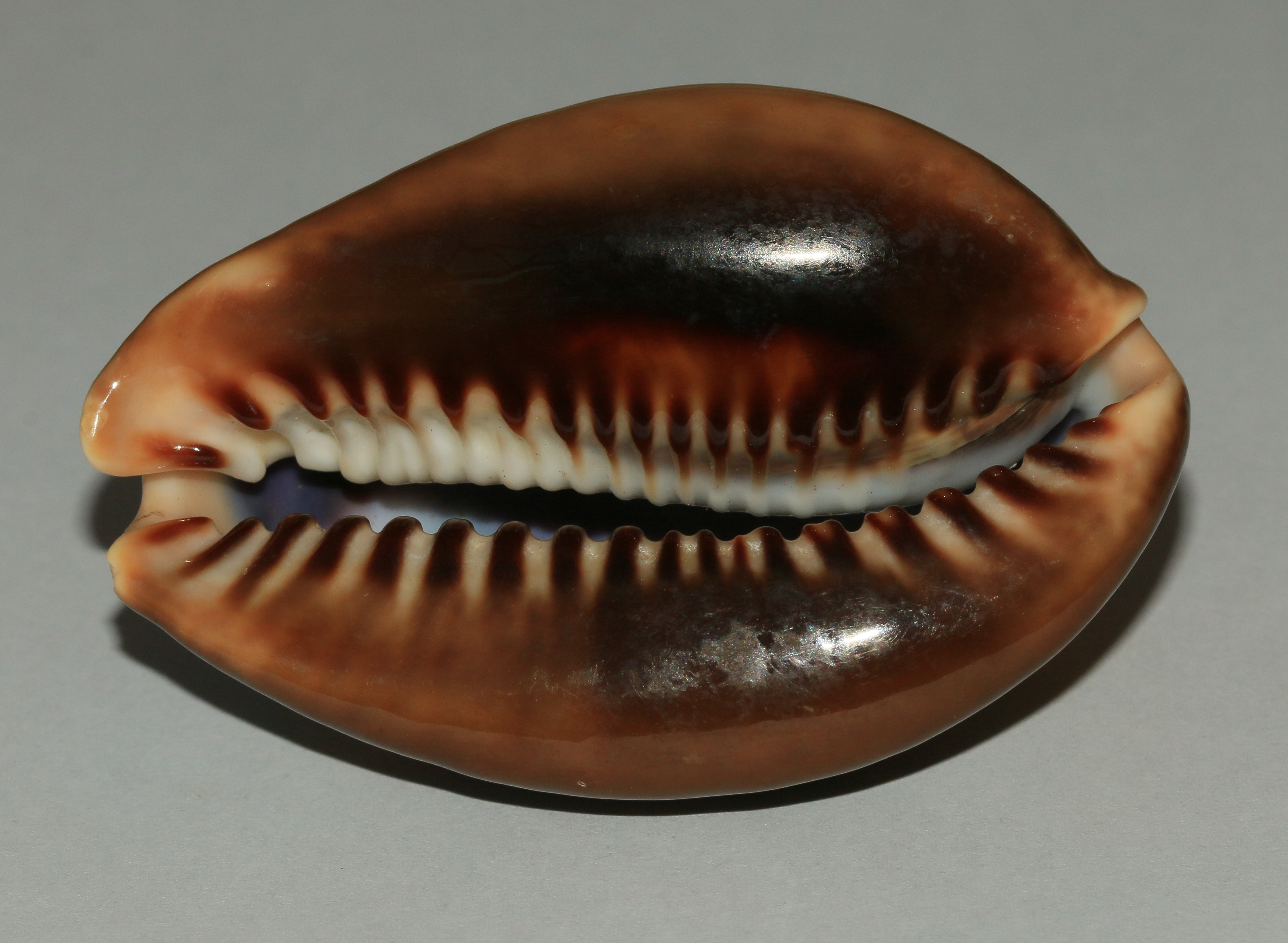 Mauritia mauritiana (Humpback/Chocolate/Mourning Cowry)